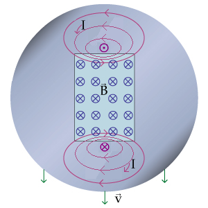 As a circular metal plate moves down through a region of constant magnetic field directed perpendicularly into the plate, eddy currents are induced in it.